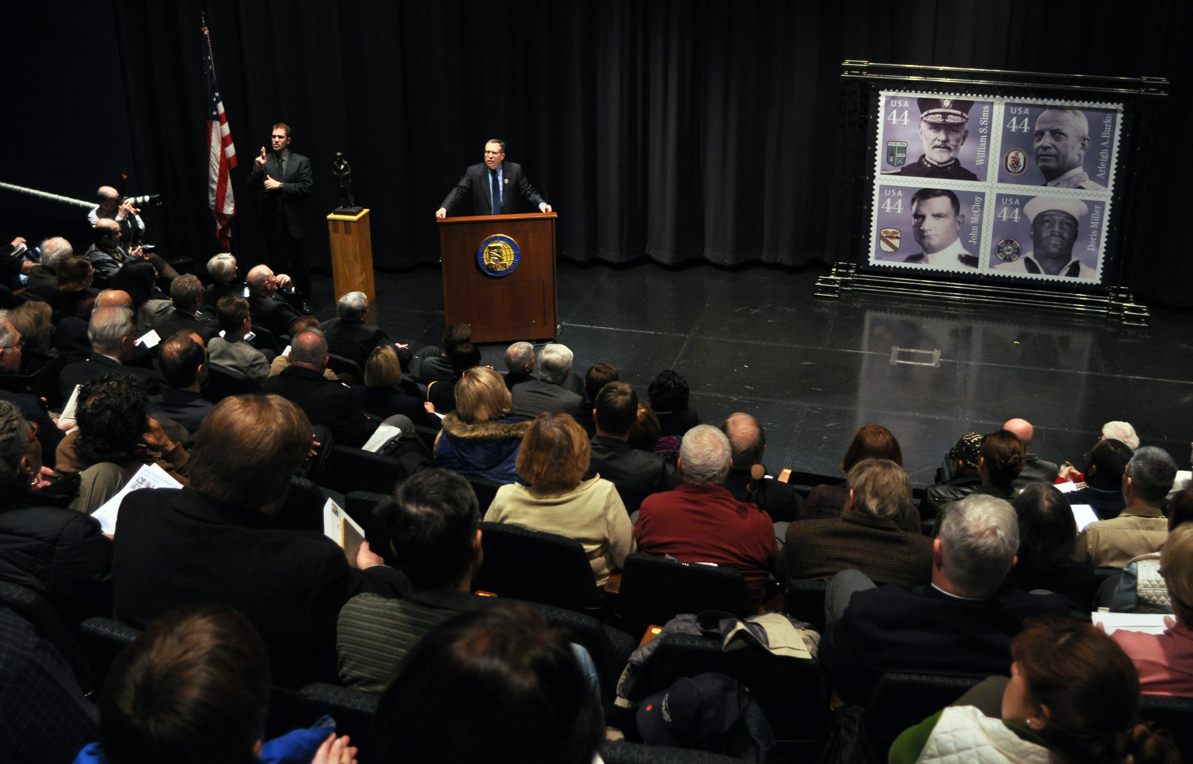 WASHINGTON (Feb. 4, 2010) David Alan Rosenberg, a naval historian, provides a brief history of the four Sailors featured on the Distinguished Sailors commemorative stamps during a ceremony at the U.S. Navy Memorial. The stamps commemorate four Sailors who served with bravery and distinction during the 20th century. Names: William S. Sims, Adm. Arleigh A. Burke, Lt. Cmdr. John McCloy and Officer's Cook 3rd Class Doris Miller. (U.S. Navy photo by Chief Mass Communication Specialist John Lill/Released)